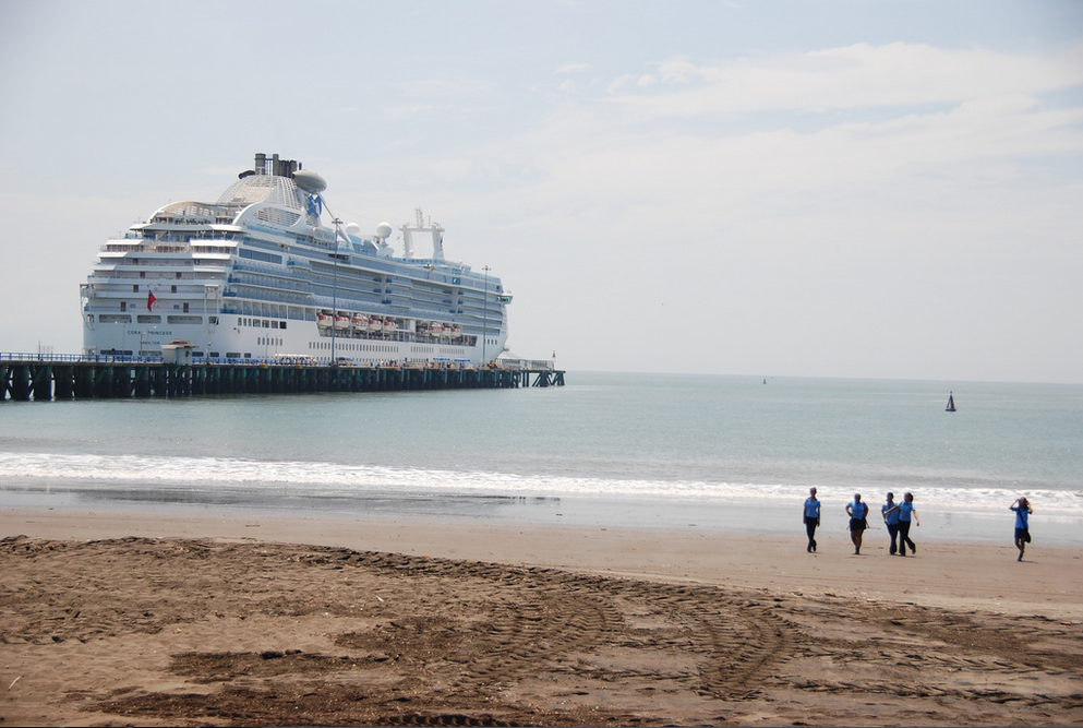 The Crown Princess docked at Puntarenas